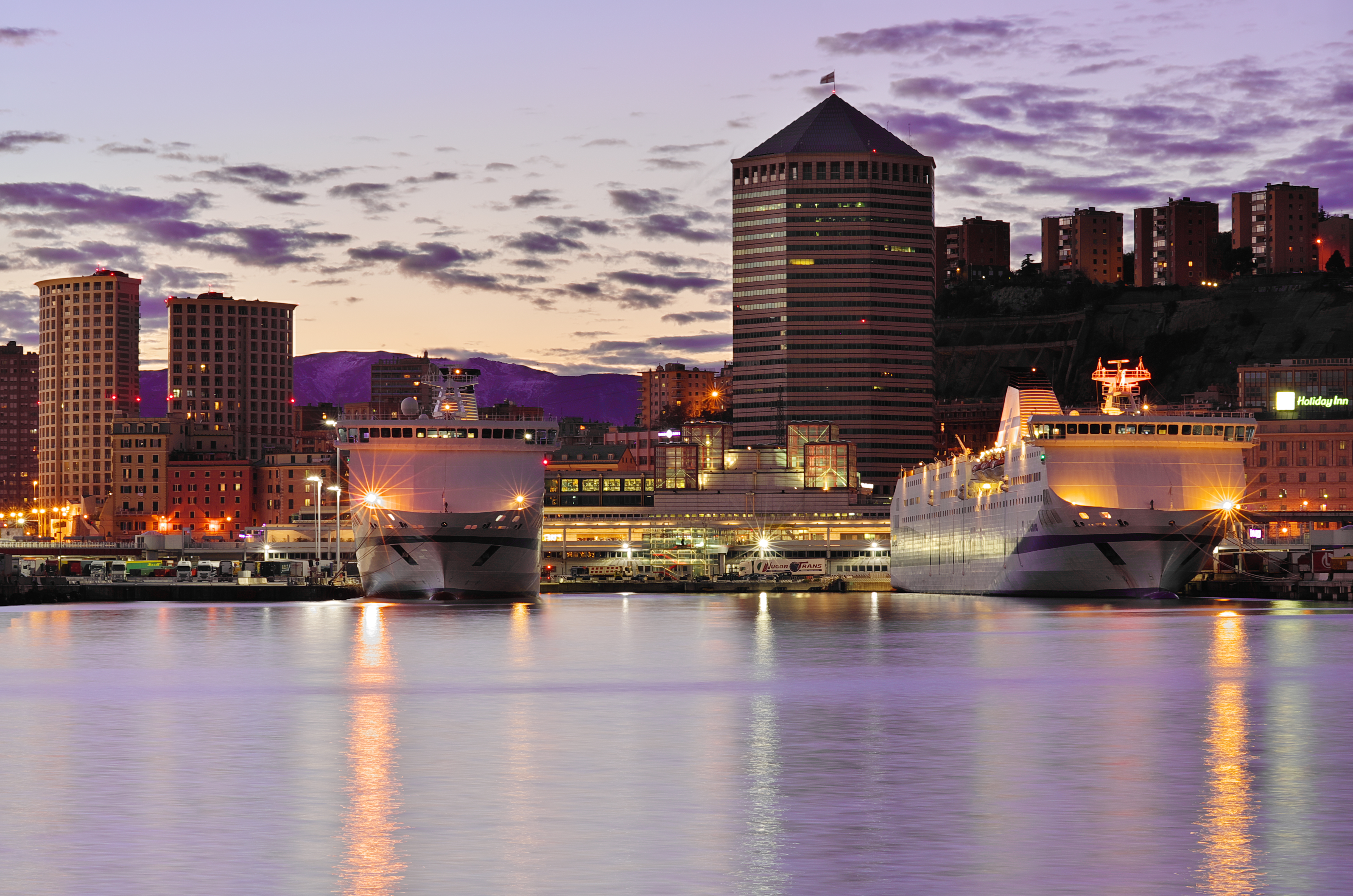 Genoa harbour at dusk. The ships are the Tirrenia ferries Janas (left) and Bithia.